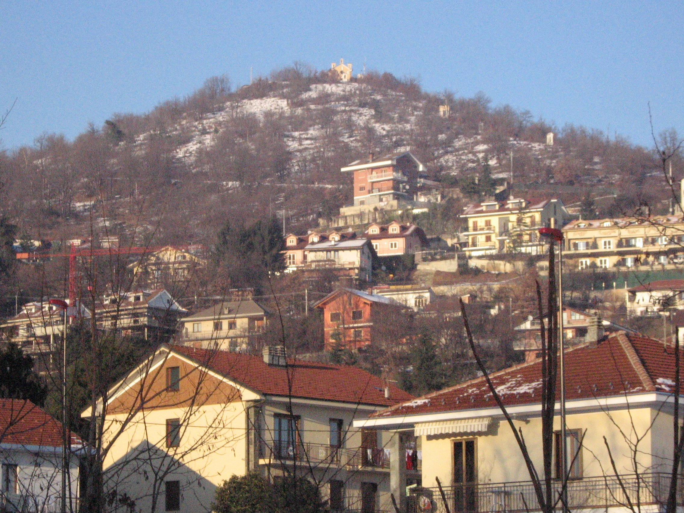 A view of Givoletto, Santa Maria zone, and the Maria Ausiliatrice curch on the background.